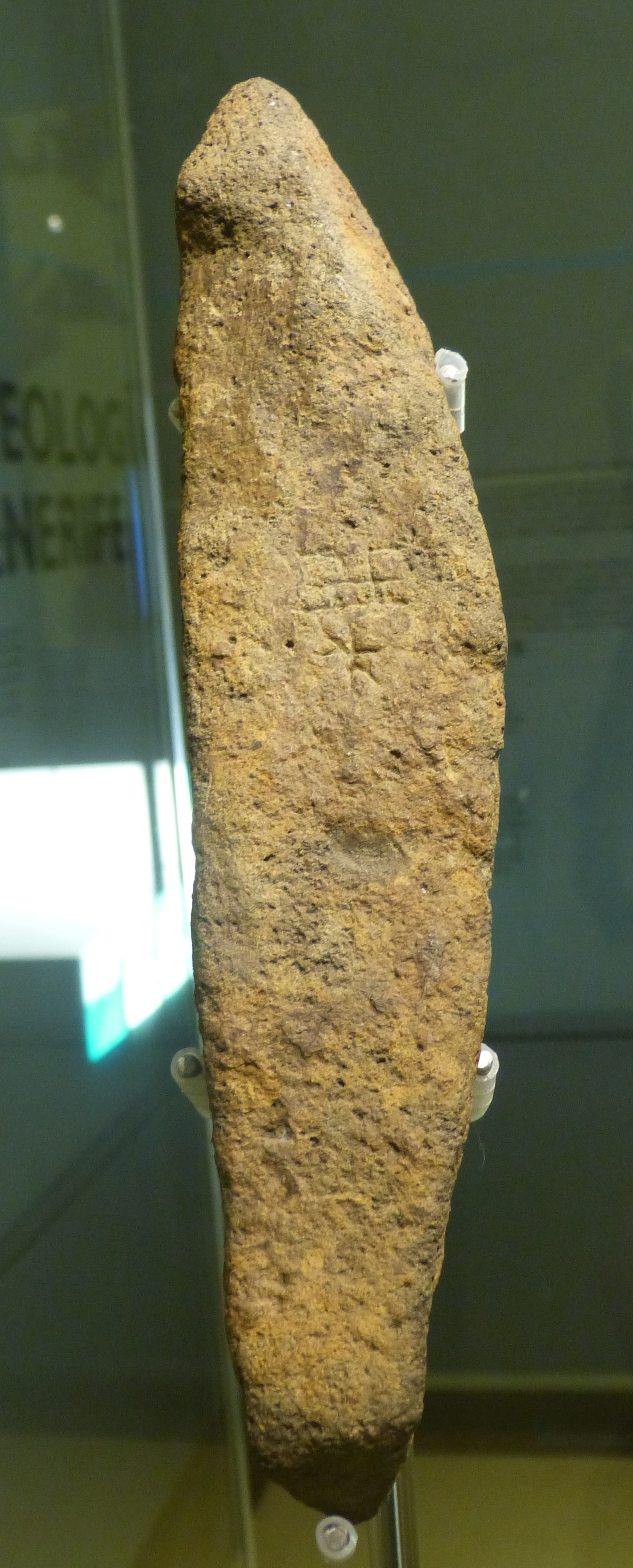 Santa Cruz de Tenerife ( Spain ). Museo de la Naturaleza y el Hombre - Guanche collections: Stone of Zanata ( El Tanque / Tenerife ) with alphabetiform inscription.